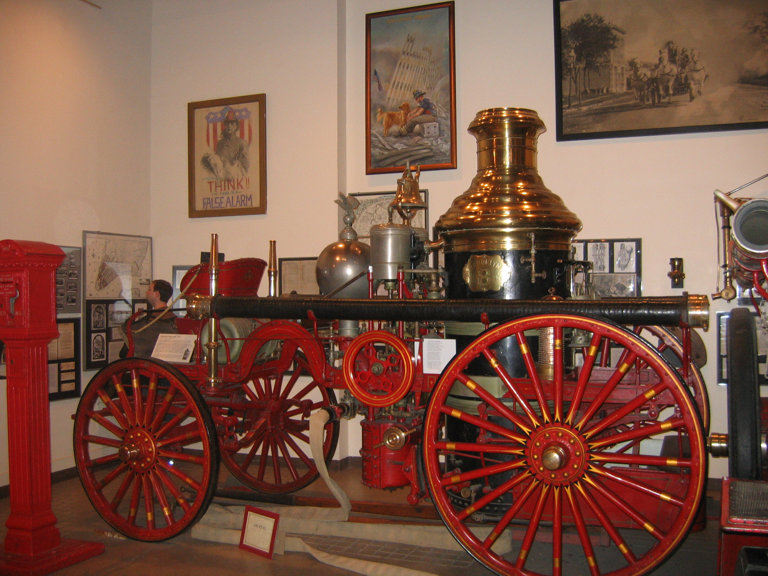 A steam fire-engine, pulled by horses and operated steam, from circa 1900. Picture taken at NY fire museum